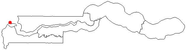 Bakau, The Gambia Location Map